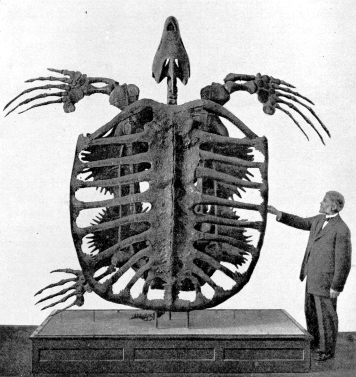 fossil skeleton of Archelon, a giant Cretaceous turtle